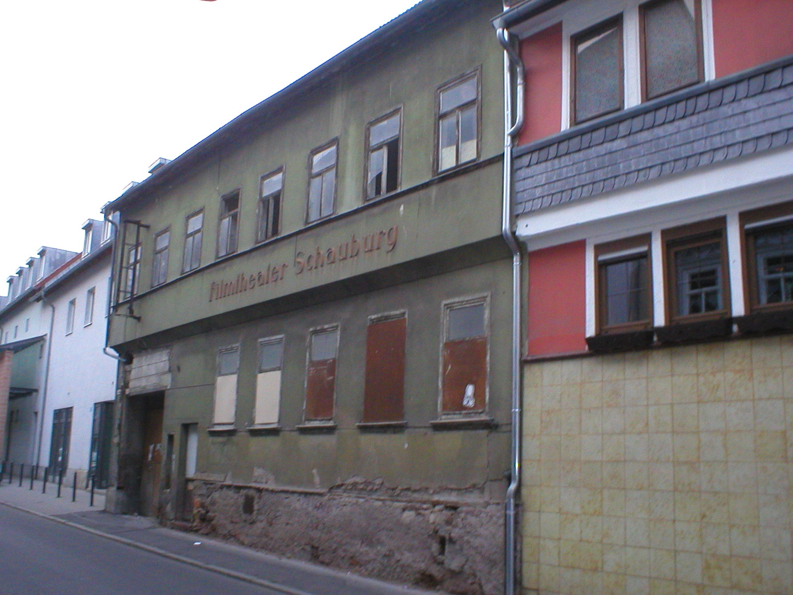 Former cinema Schauburg